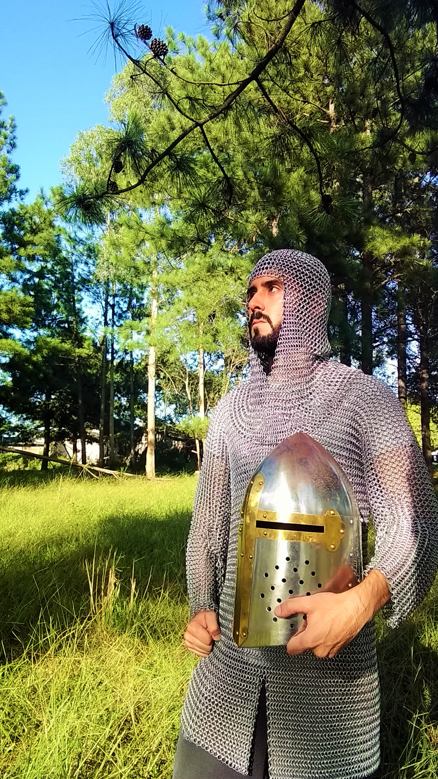 Man wearing a chain mail with a non-riveted knitted cap, that is, as fancy and not for use in battle. He is also carrying a Spanish helmet of the thirteenth century - the "sugar loaf helmet".